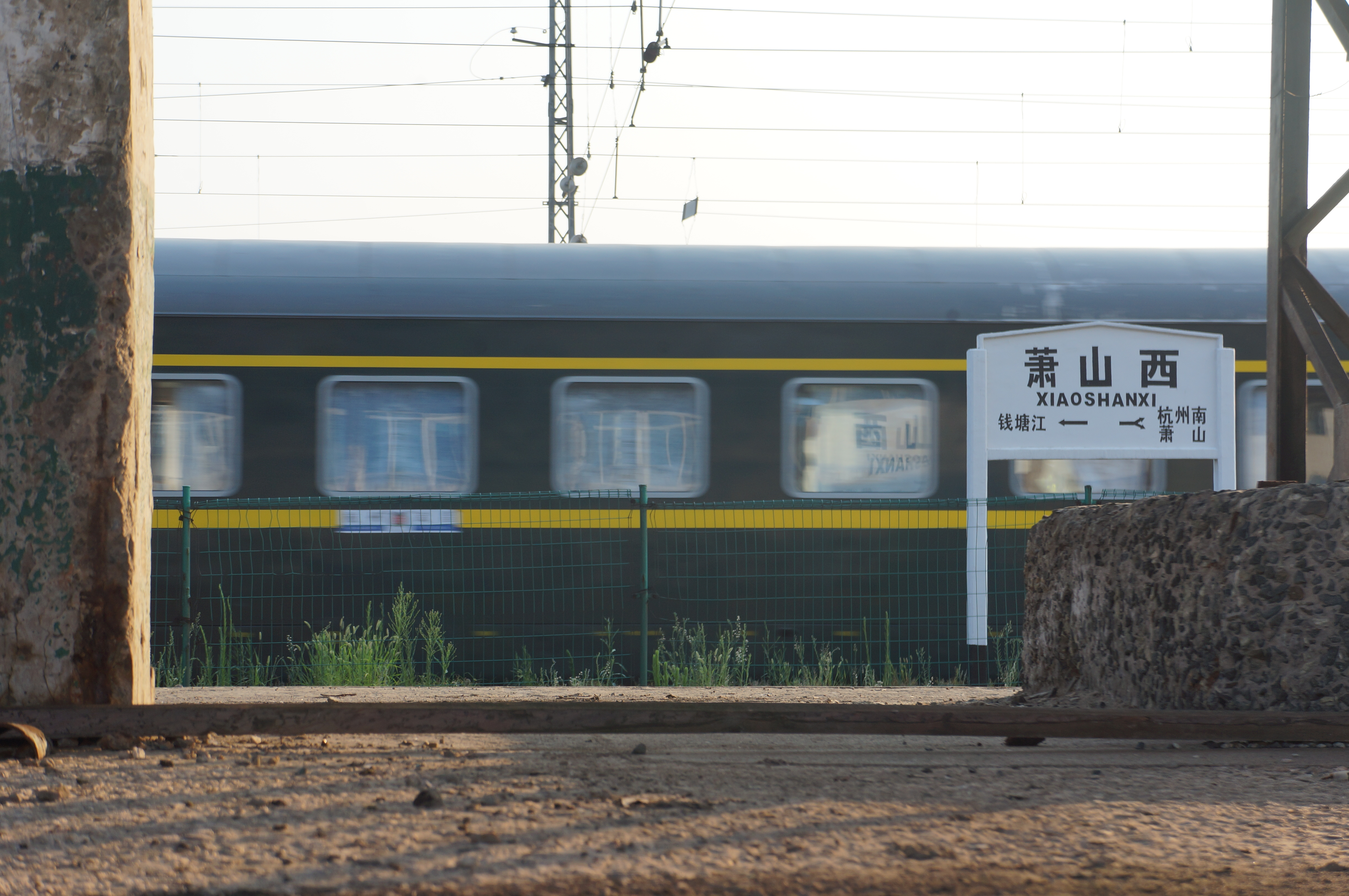 201607 Z48 passes Xiaoshanxi Station